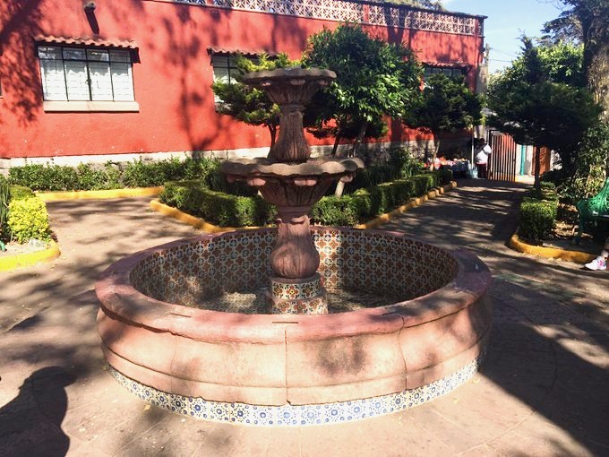 Fuente histórica en el jardín Hidalgo en Cuajimalpa